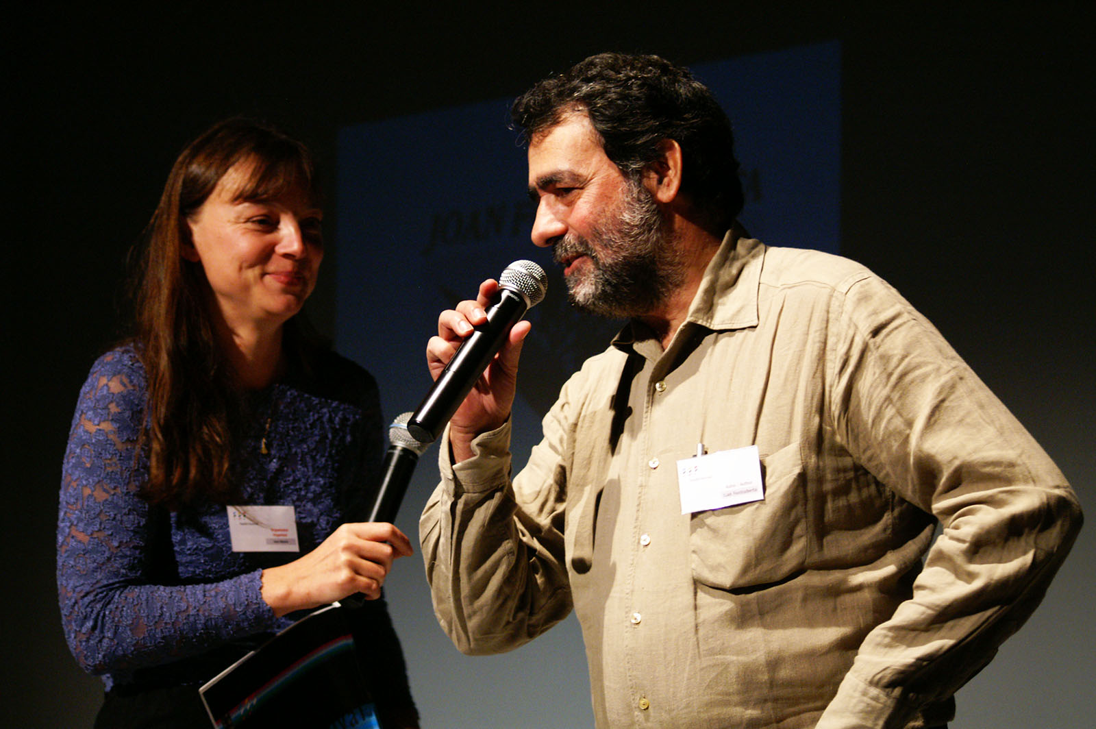 Joan Fontcuberta, artist photographer during FotoArtFestival 2007 in Bielsko-Biala, Poland. Second person: Inez Baturo